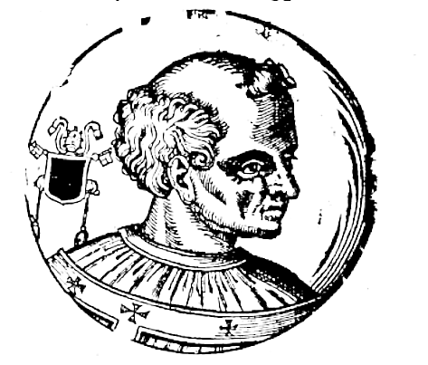 Agapetus II, drawn extracted by Bartolomeo Sacchi said Platina, Vite De' Pontefici, edited by di Onofrio Panvinio, per i tipografi Turrini, e Brigonci, Venice 1663